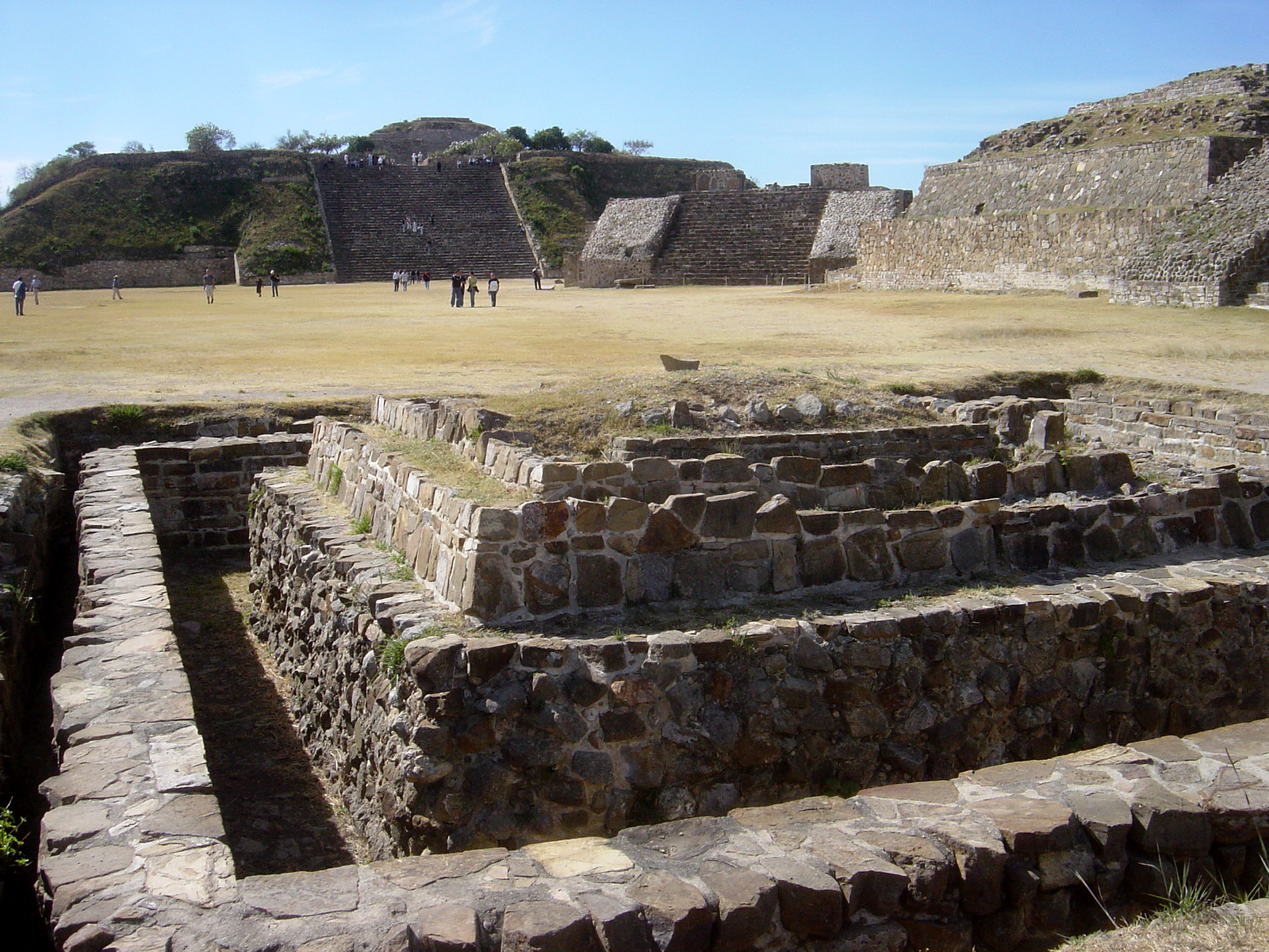 Sacrificial altar in Monte Alban. Photo taken by Bobak Ha'Eri. December 2005. Please observe license and properly cite in use outside Wikipedia.